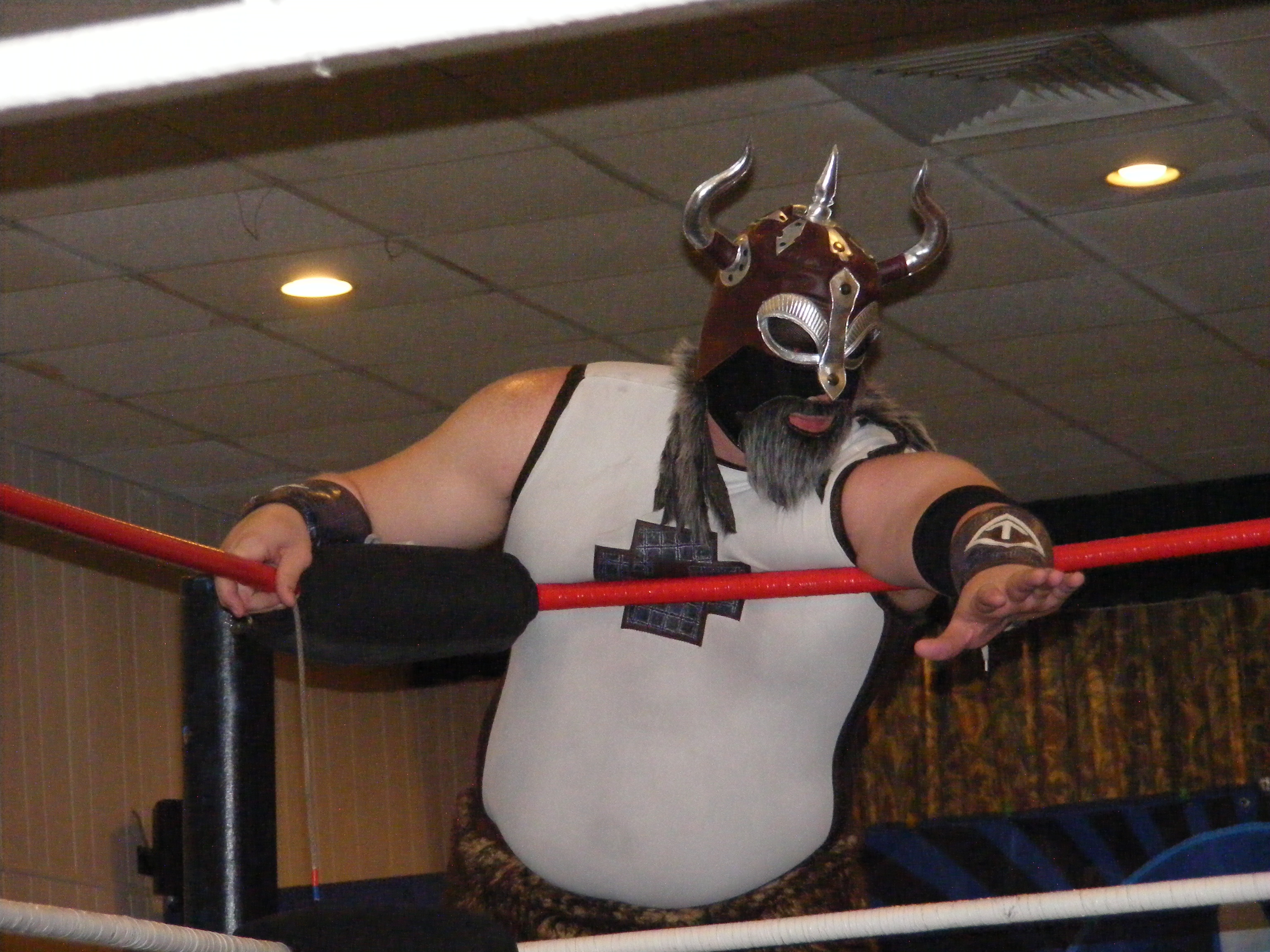 Professional wrestler Tursas at a Chikara event